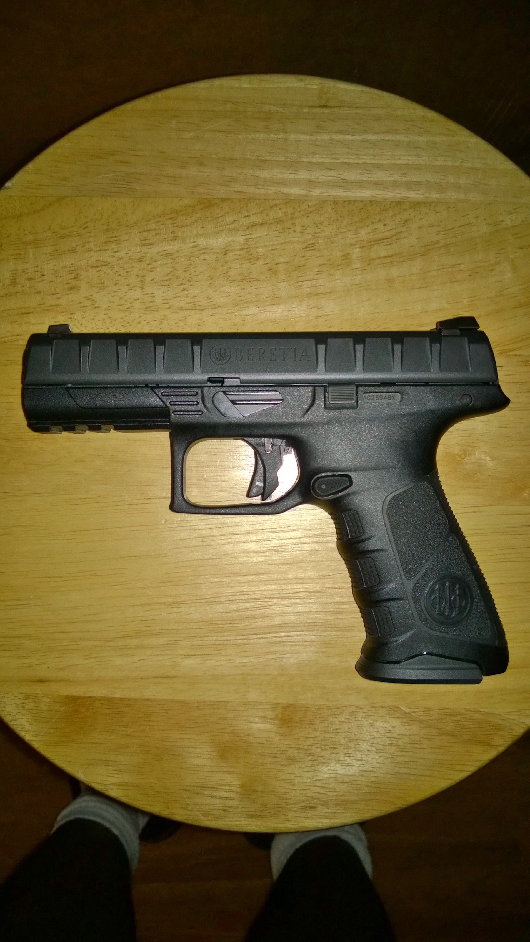 Beretta APX full size